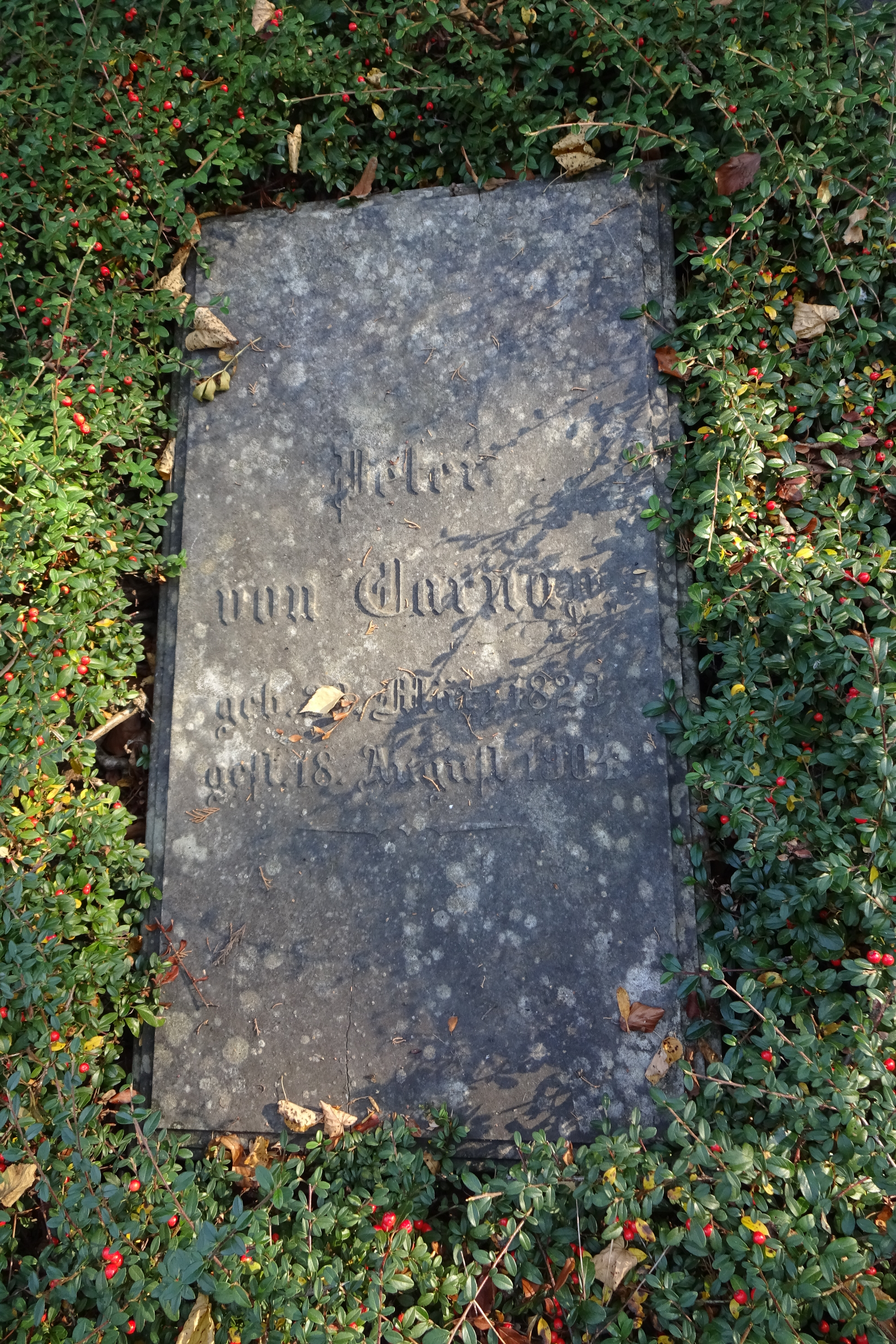 Grave of local politician Peter von Carnap in Reformierten Friedhof Hochstraße in Wuppertal